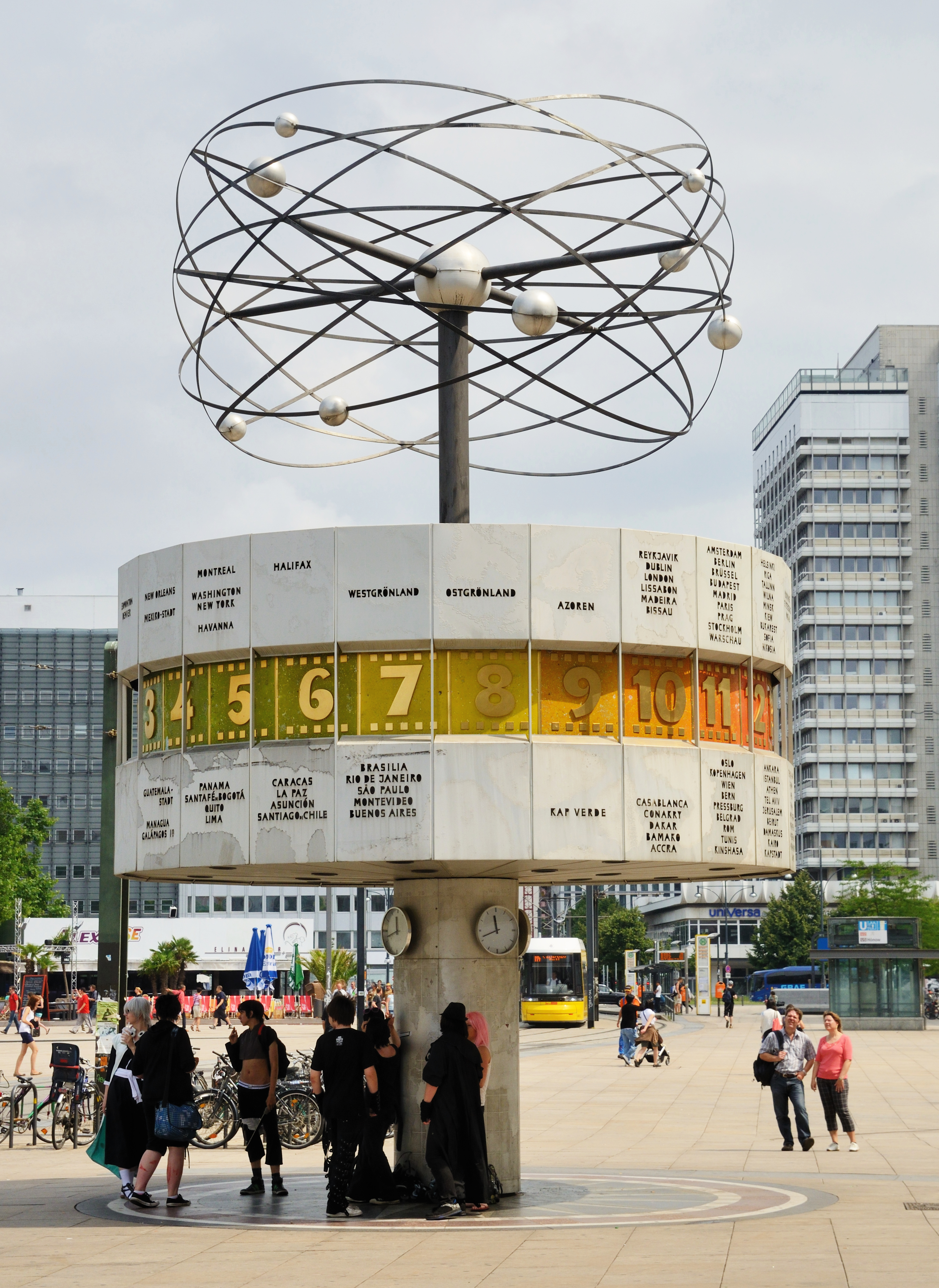 Berlin: Urania world clock